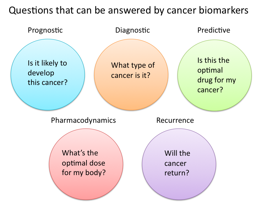 Diagram of questions that can be answered by cancer biomarkers